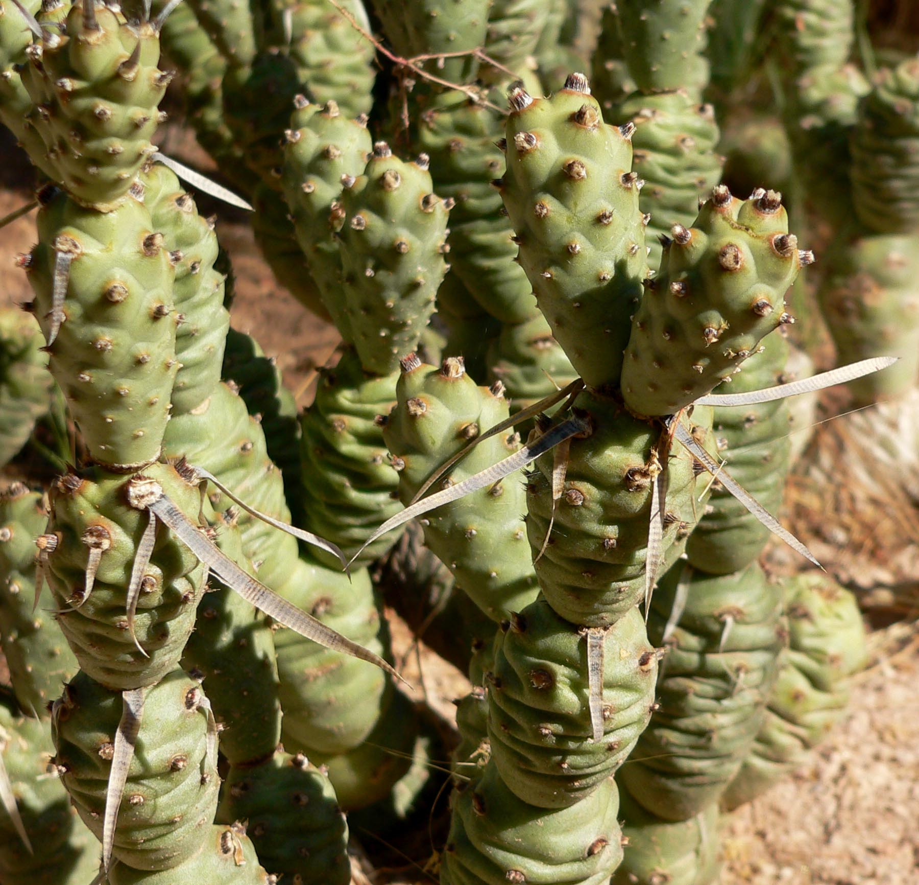 Photo of Tephrocactus articulatus at the Springs Preserve garden in Las Vegas, Nevada